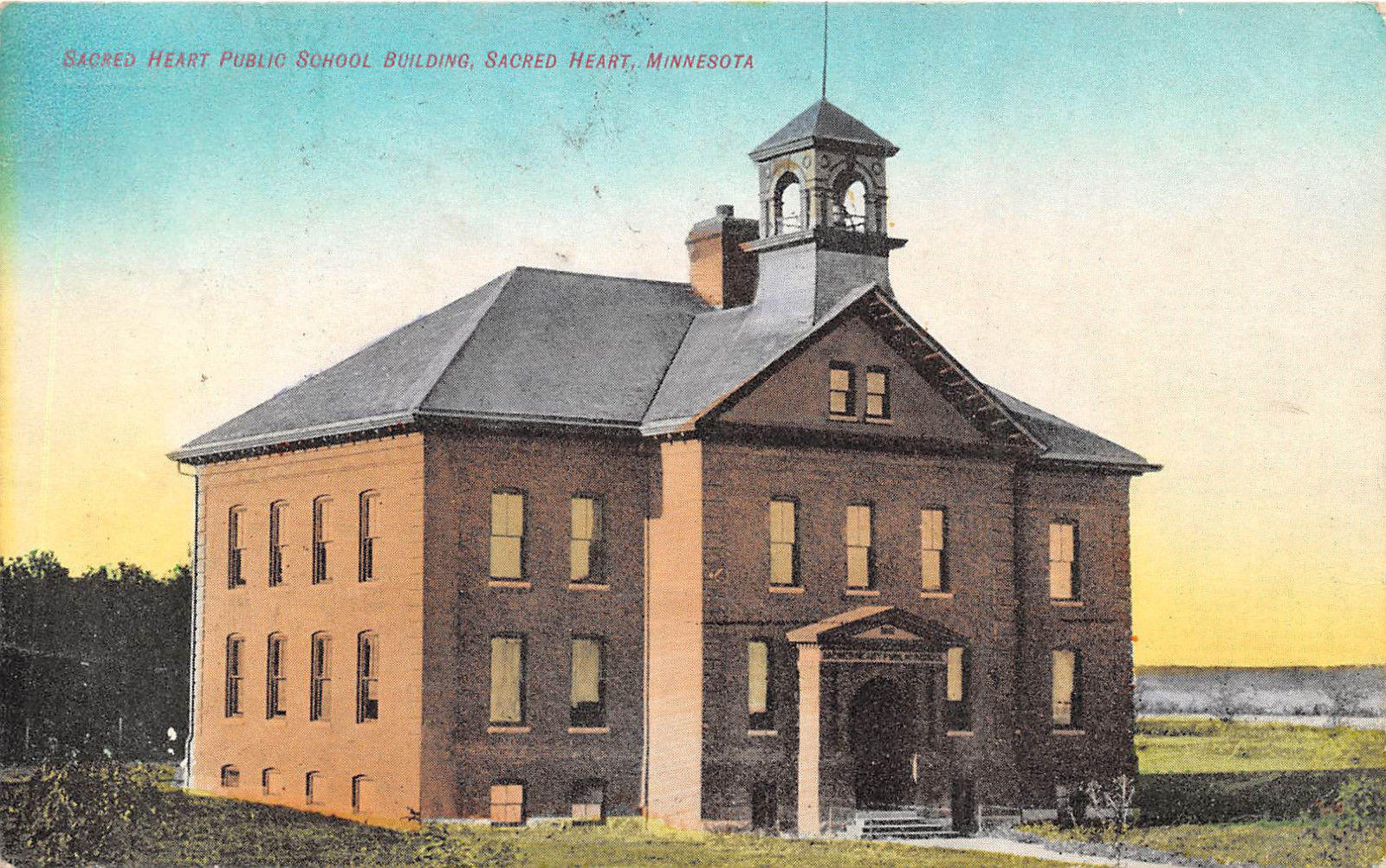 Postcard postmarked 1903 showing the Sacred Heart Public School Building, Sacred Heart, Minnesota, United States